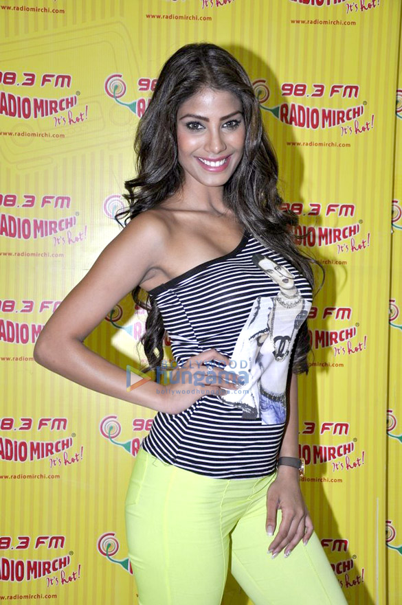 Nicole Faria during promotions of the film Yaariyan at 98.3 FM Radio Mirchi in Mumbai